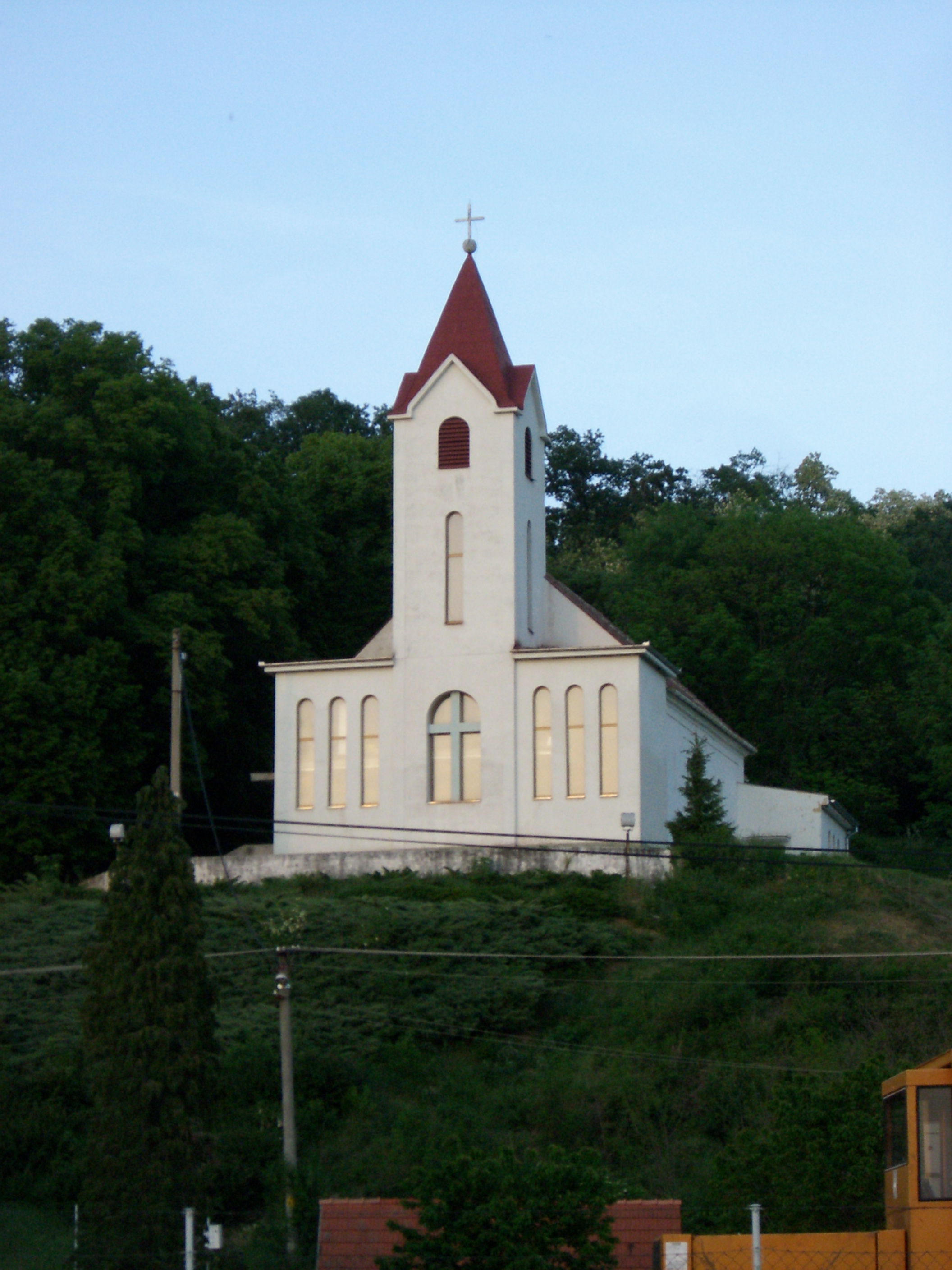 church in village Nemčiňany